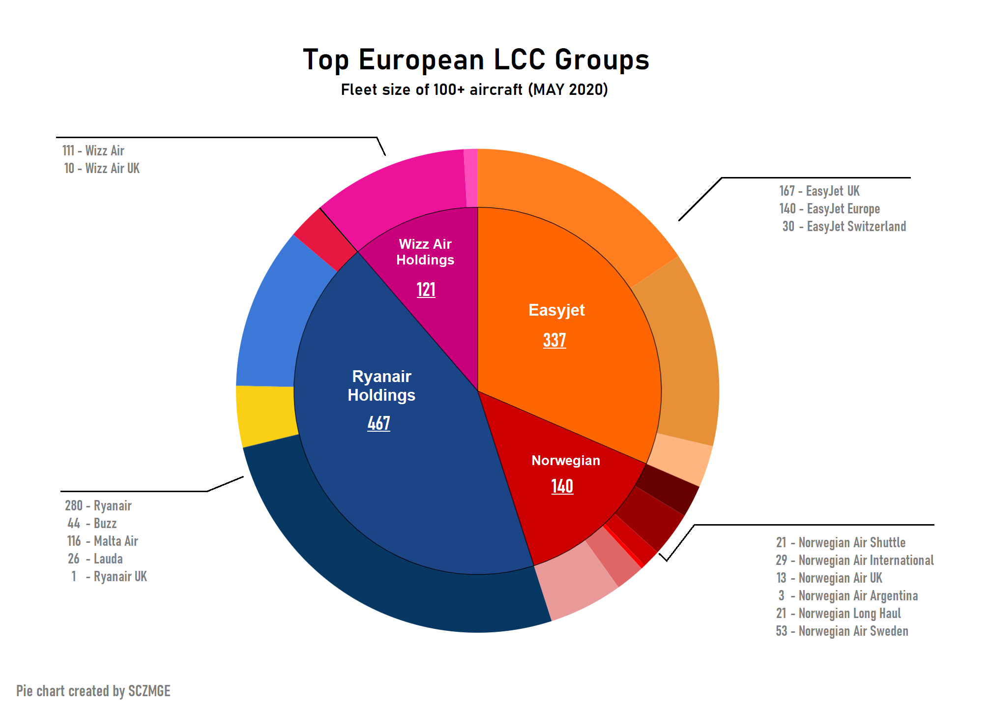 The current fleet size of some largest low-cost carrier groups in Europe (excluding LCC being a part of a major airline group) - Valid from 15 May 2020. Retrieved from at 15 May 2020